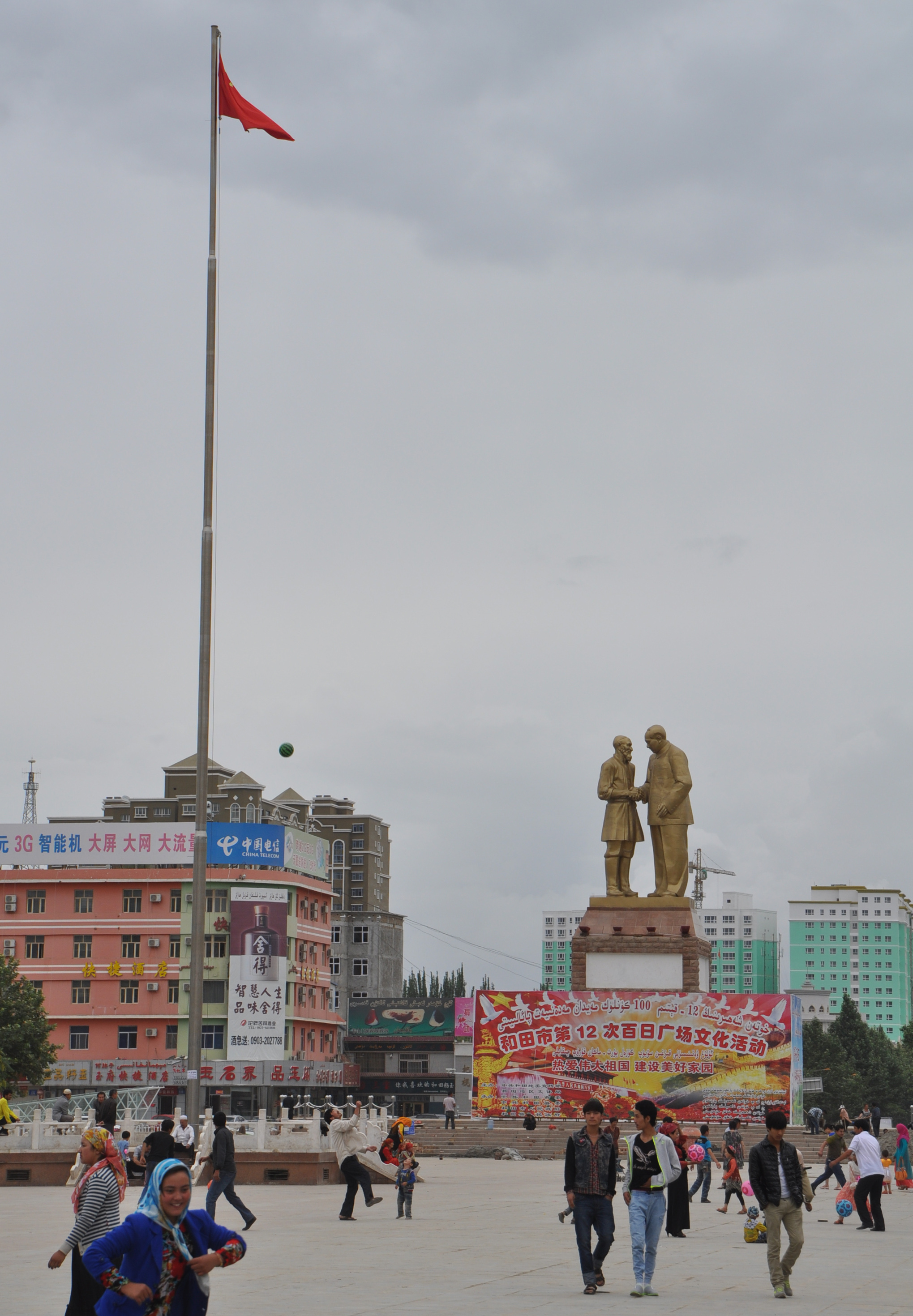 Monument of Kurban Tulum meeting with Mao Zedong, Hotan, China